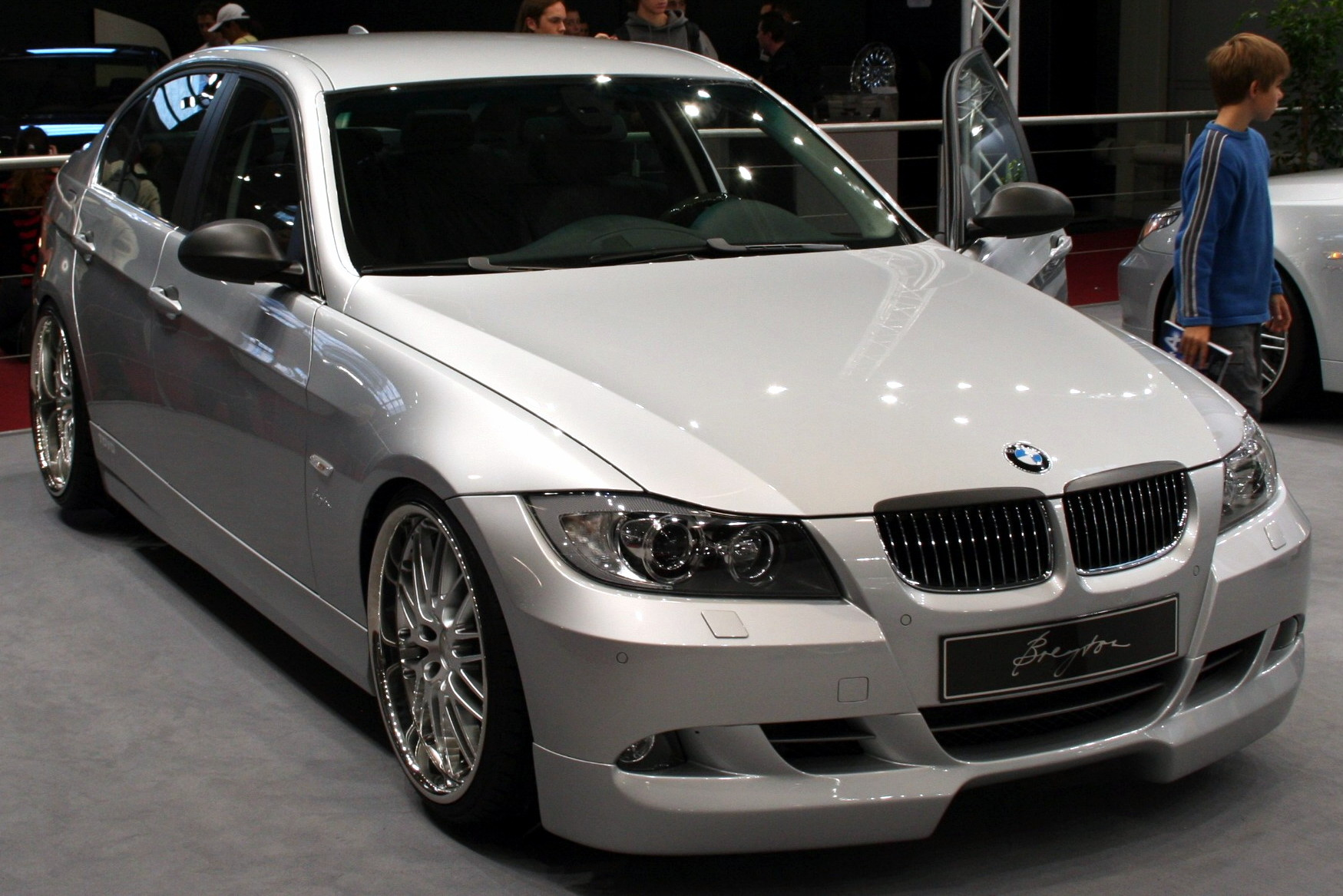 BMW Breyton on IAA 2005 BMW E90 3 Series modified by Breyton Photo taken by Ygrek, 17th September 2005.